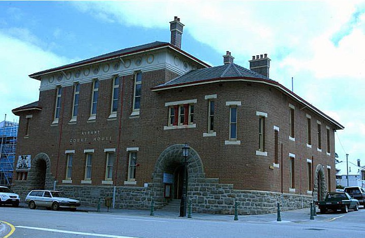 OLD COURTHOUSE - 1896-1898 WITH A UNIQUE GRANITE CONVOLUTE ARCH OVER THE DOOR WHICH USES NO CEMENT in Albany Western Australia. Architect - Georege T.T. Poole